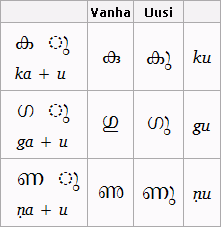 Malayalam script, examples of the new and old styles (lipi). Old style: ThoolikaTraditionalUnicode Version 2.00 [1] New style: ThoolikaUnicode Version 2.00 Header: Verdana Latin: Charis SIL